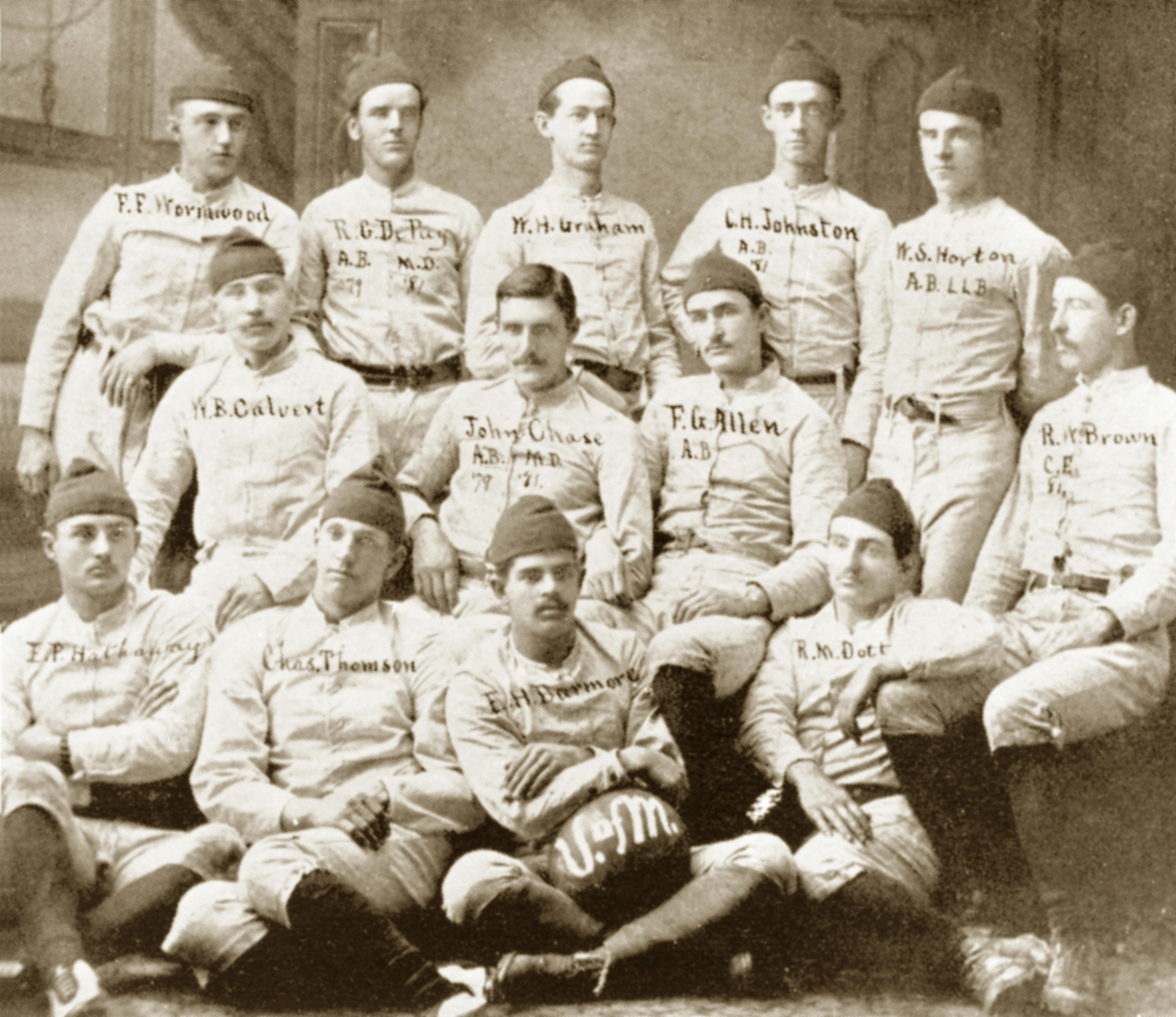 Photograph of 1880 Michigan Wolverines football team